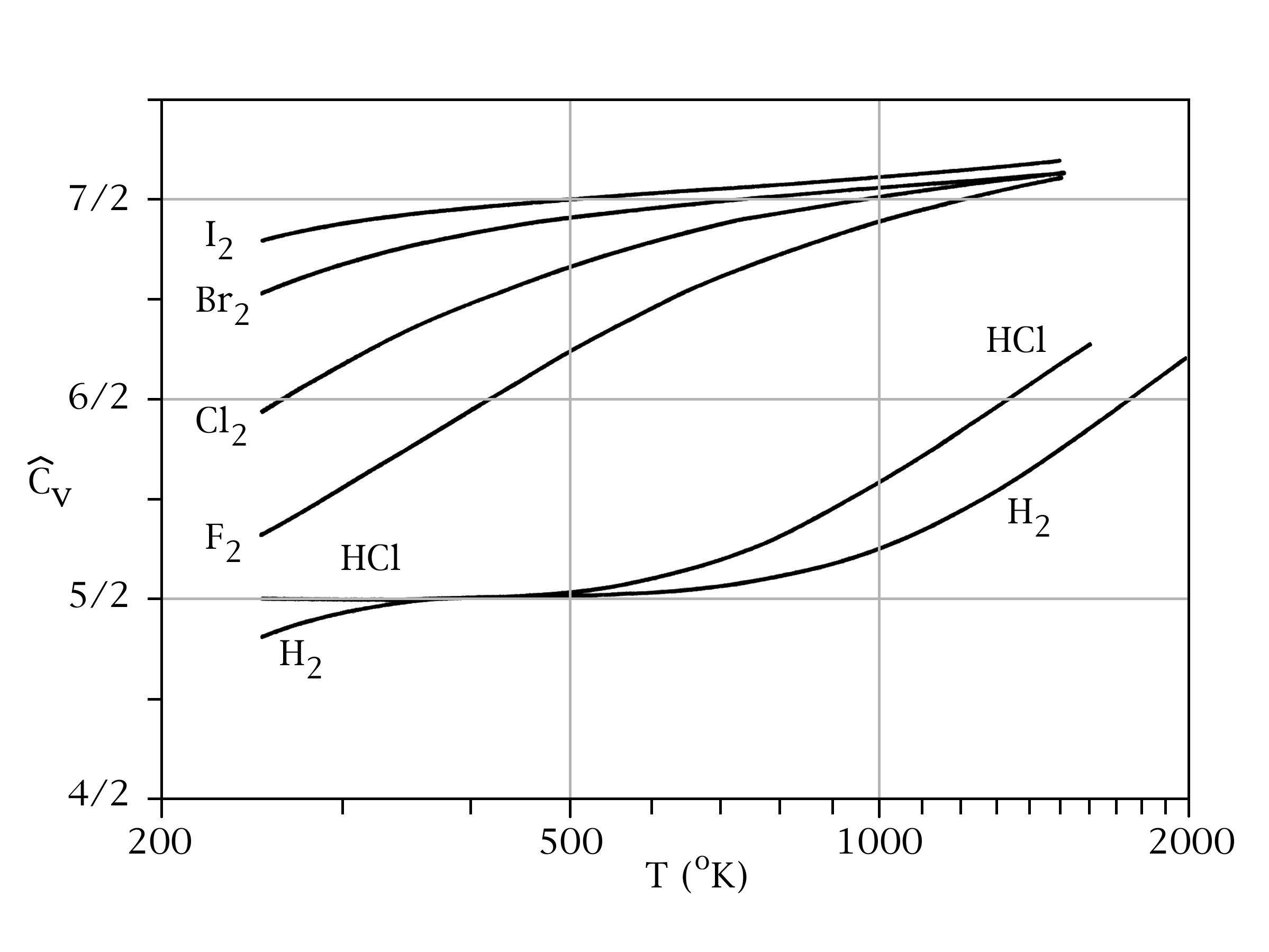 The dimensionless specific heat of a number of diatomic molecules as a function of temperature between 200 and 2000 deg. K. This data was adapted from Lewis and Randall (1961).